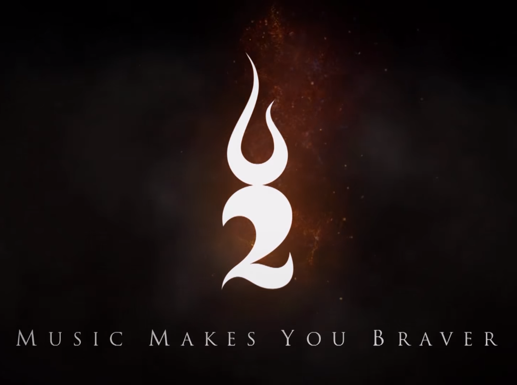 Two Steps From Hell1